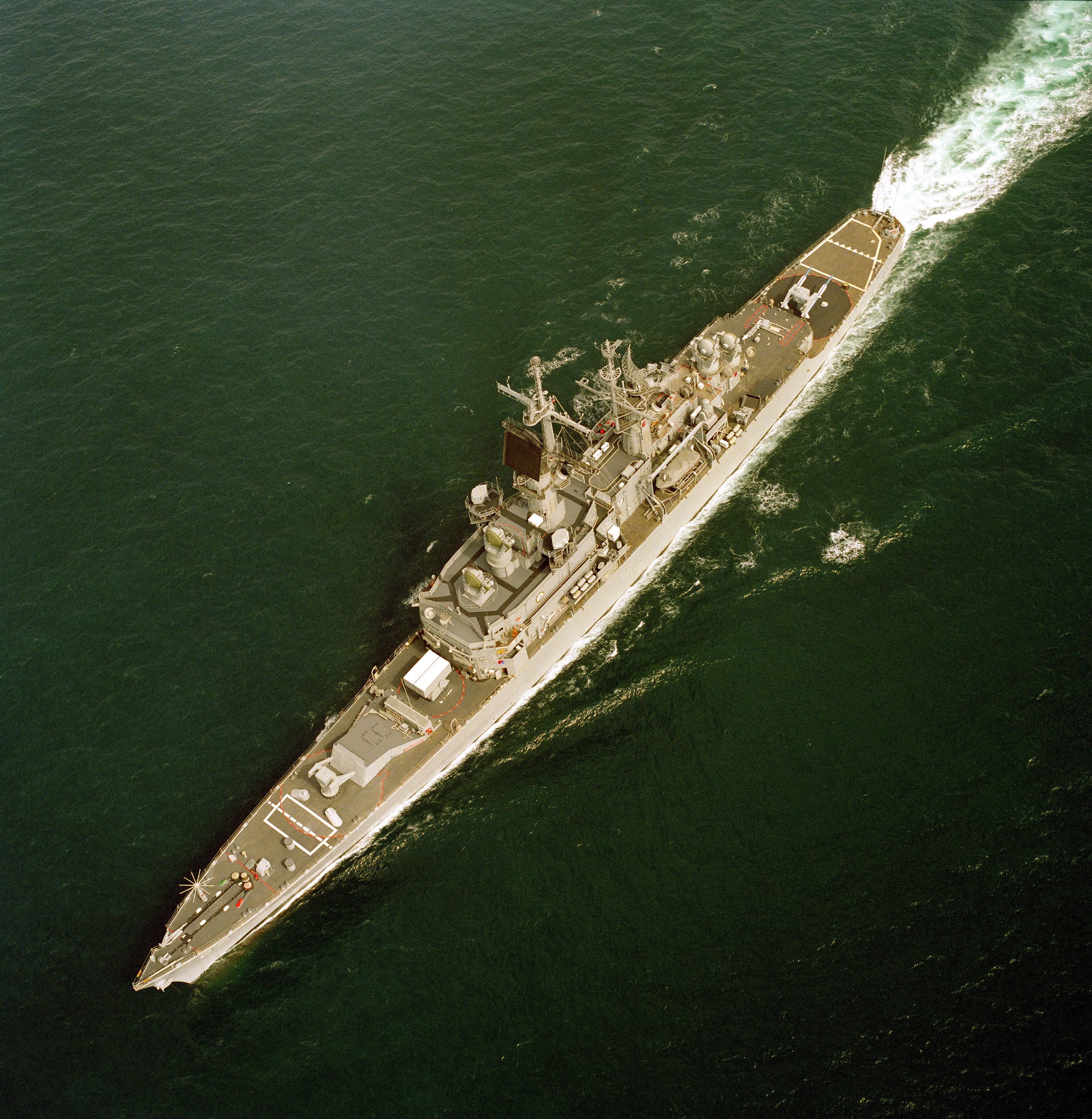 The U.S. Navy guided missile cruiser USS England (CG-22) underway at sea on 27 February 1992.